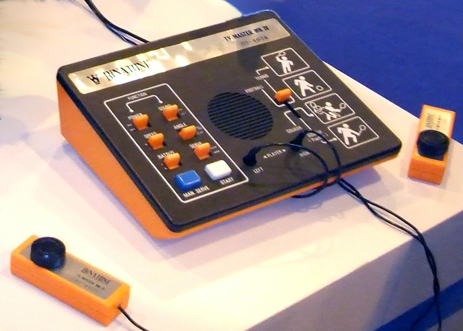 First generation console: Binatone TV Master Mk IV. Since 1977 (based on the AY-3-8500 chip)